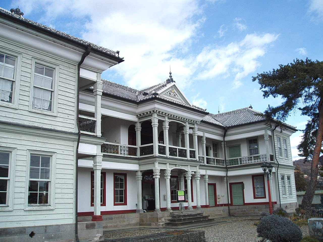 Kiryu Meijikan located in Aioi-cho, Kiryu, Gunma, Japan. Originally built in 1878 (Meiji 11) in Maebashi as the Public Health Bureau of Gunma Prefectural Government. In 1928 removed to this site and used as the village hall of Aioi Village Government (a part of Kiryu City today). An important cultural property of Japan.